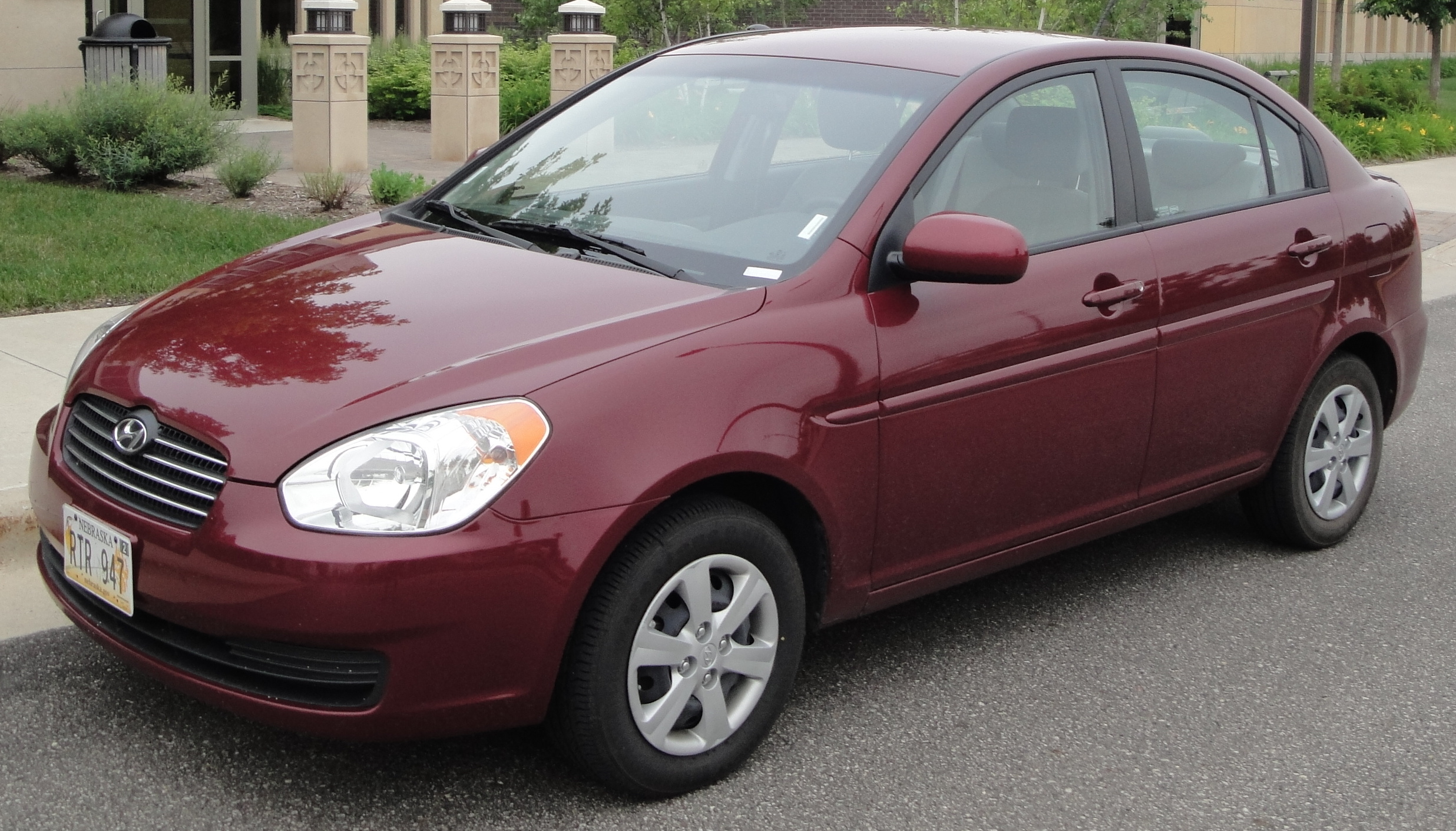 This was the car I rented to pick up the New Yorker in Owatonna, Minnesota.